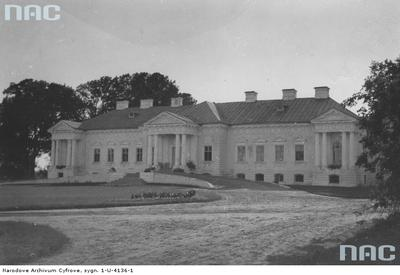 Palace of the Skirmunts (Skirmunt family) in Moladava (Belarus), 1937 AD